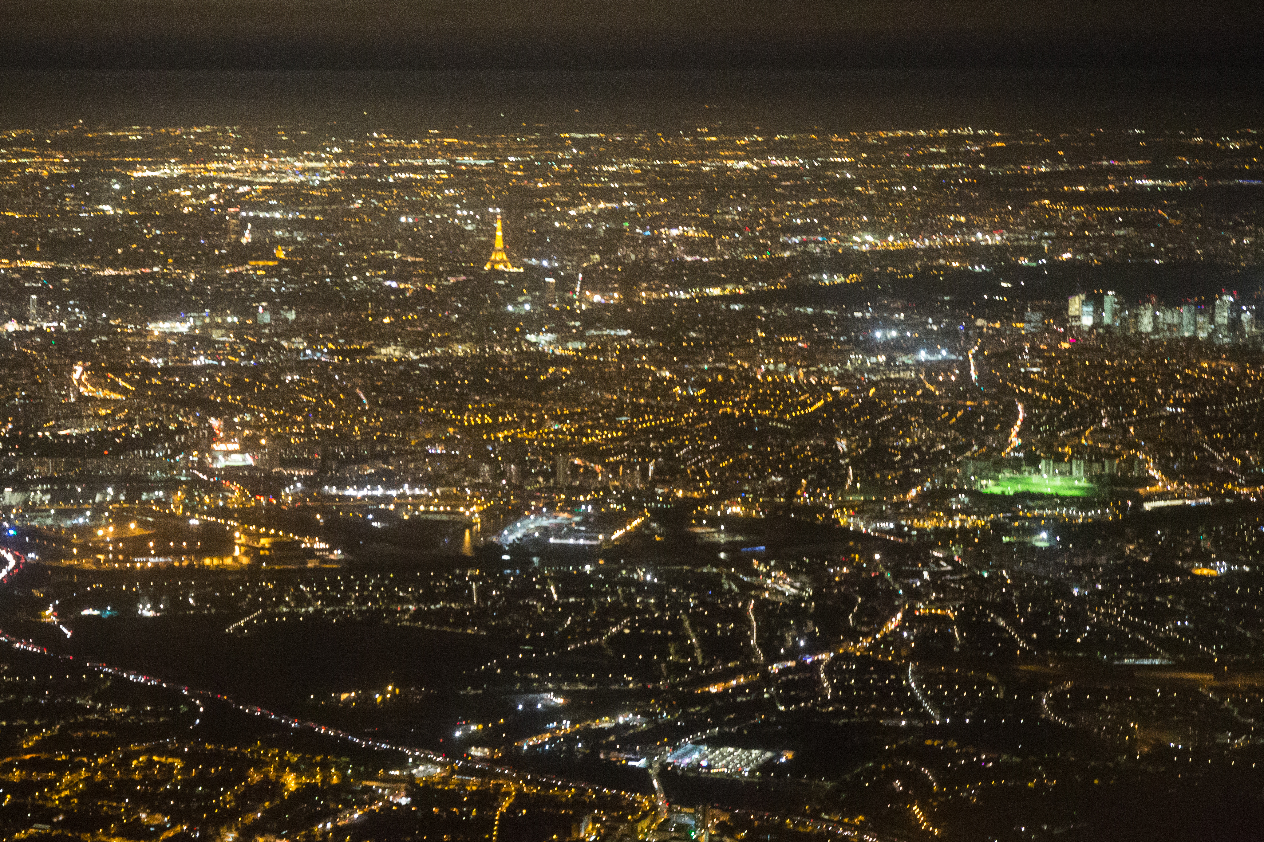 Night aerial view of Argenteuil (foreground) and Paris (bagkground) during a flight from TXL to CDG.